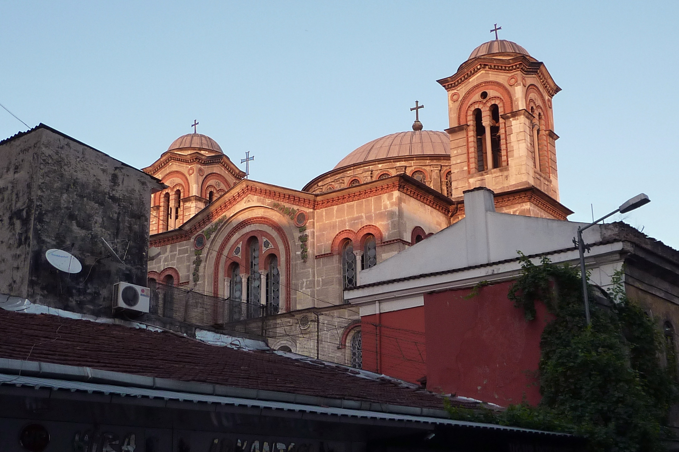 Greek Orthodox Church of St Kyriaki, Kumkapı